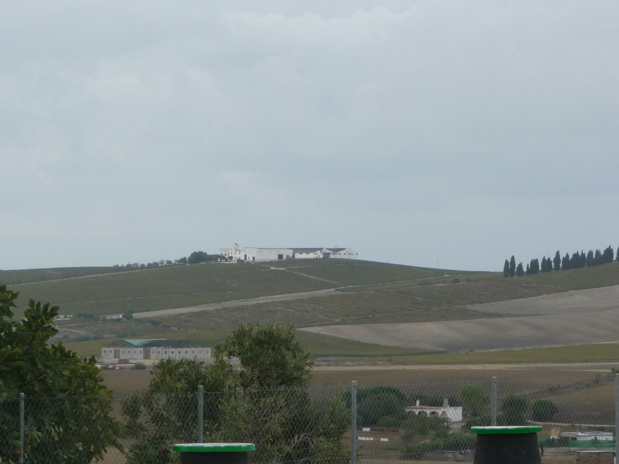 Cerro Viejo vineyards, Jerez de la Frontera (Andalusia, Spain)